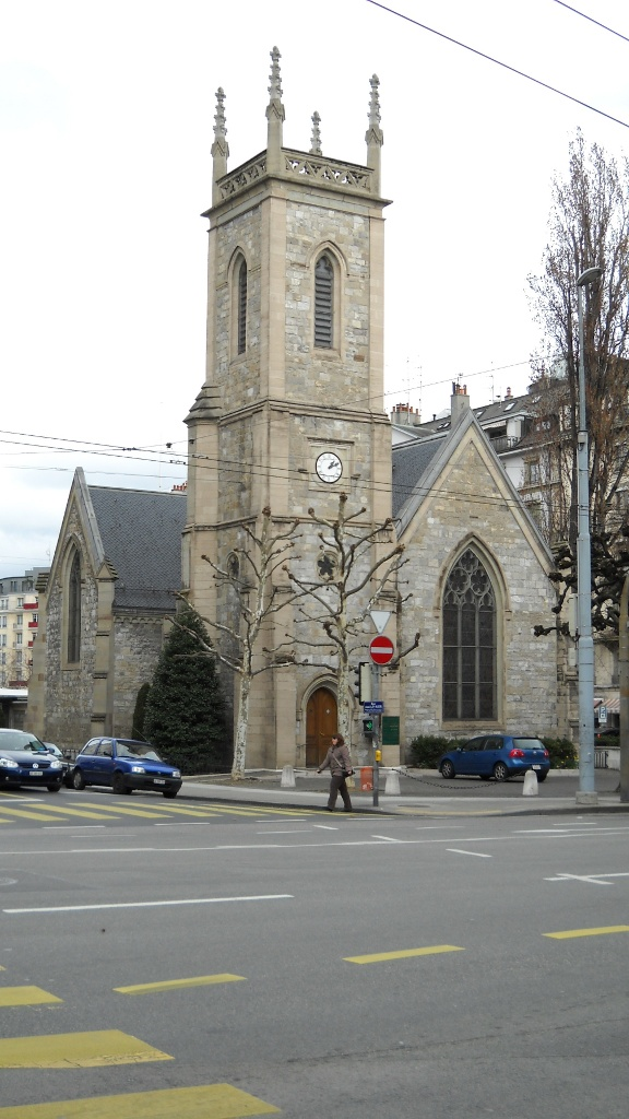 The Church of the Holy Trinity (eglise anglicane). Geneva (Switzerland)